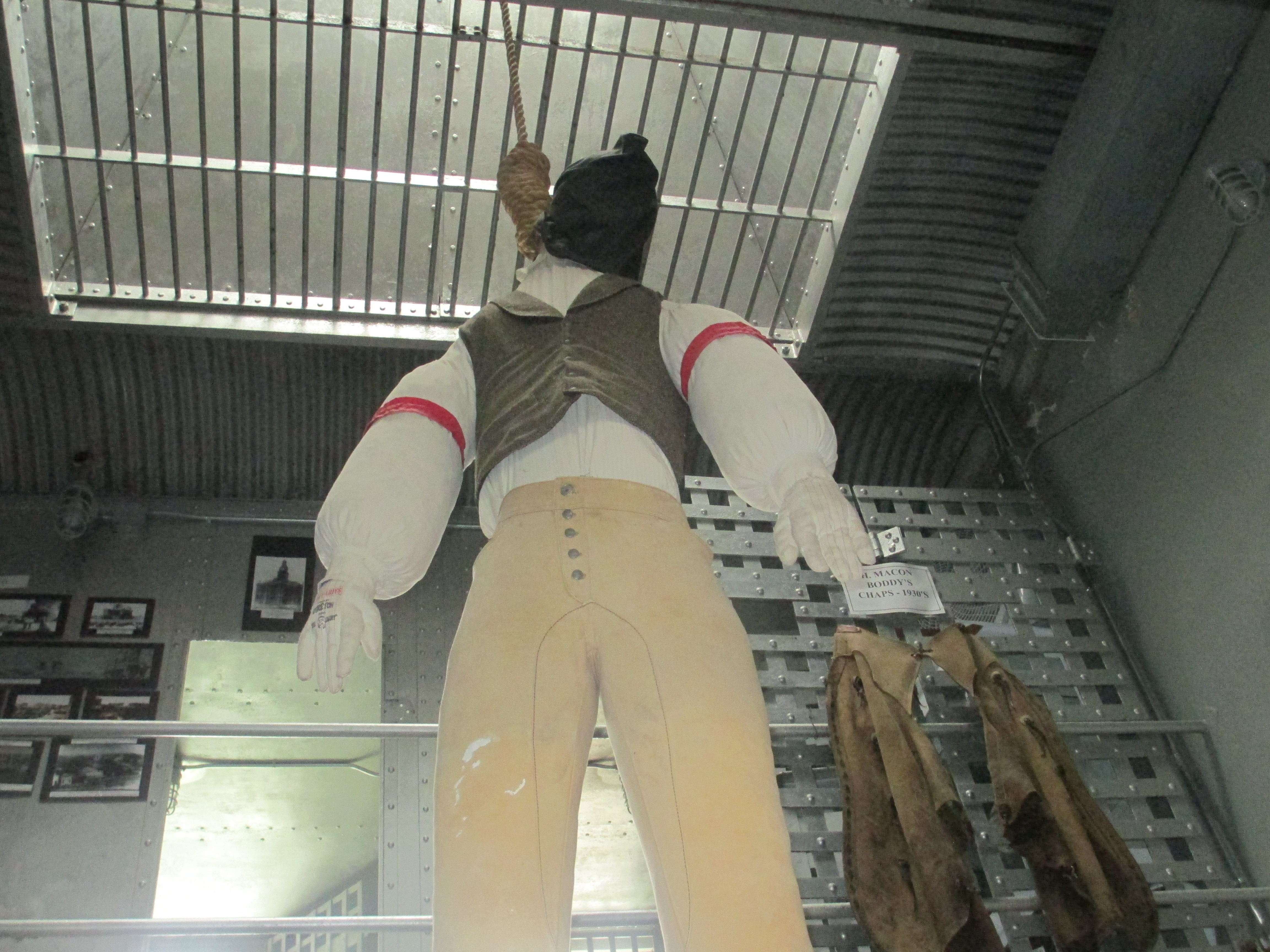 I took photo of hanged man exhibit at Clay County 1890 Jail Museum in Henrietta, TX, with Canon camera, April 4, 2013. Billy Hathorn (talk) 20:03, 11 April 2013 (UTC)